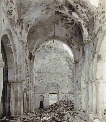 The nave of the Great Mosque of Gaza, looking west.